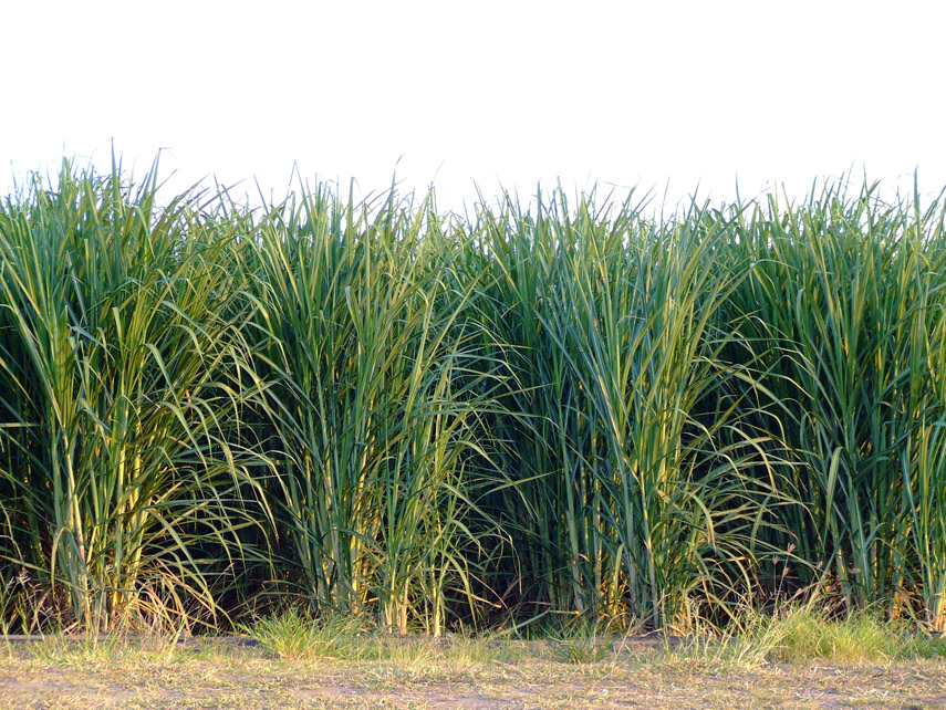 Rows of sugarcane somewhere in Northern Queensland, Australia